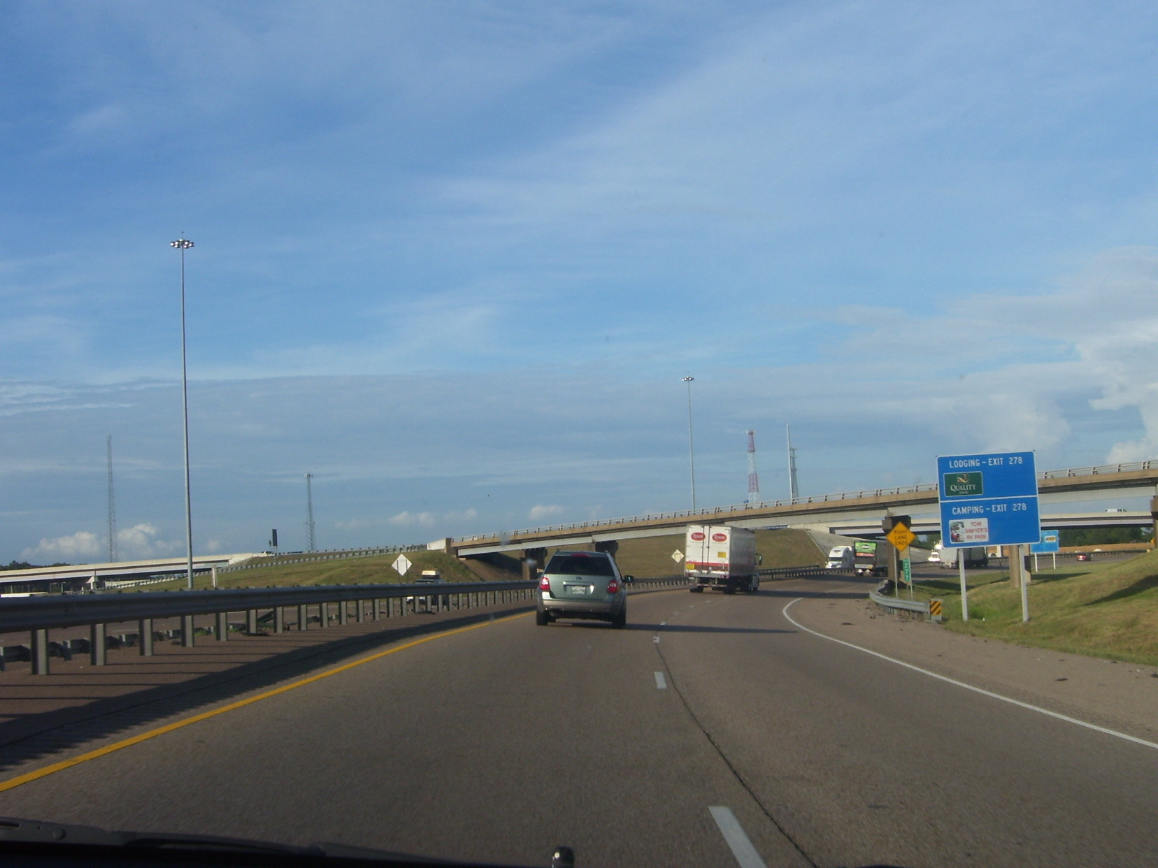 The I-55 flyover over I-40 at their western junction in West Memphis, Ark.